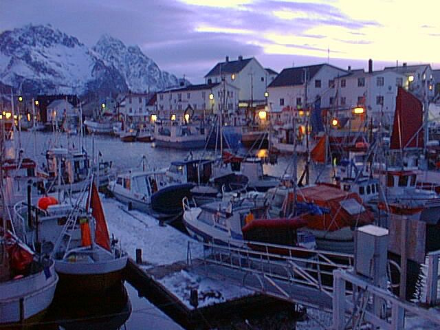 Henningsvær, Lofoten, Nordland, Norway.